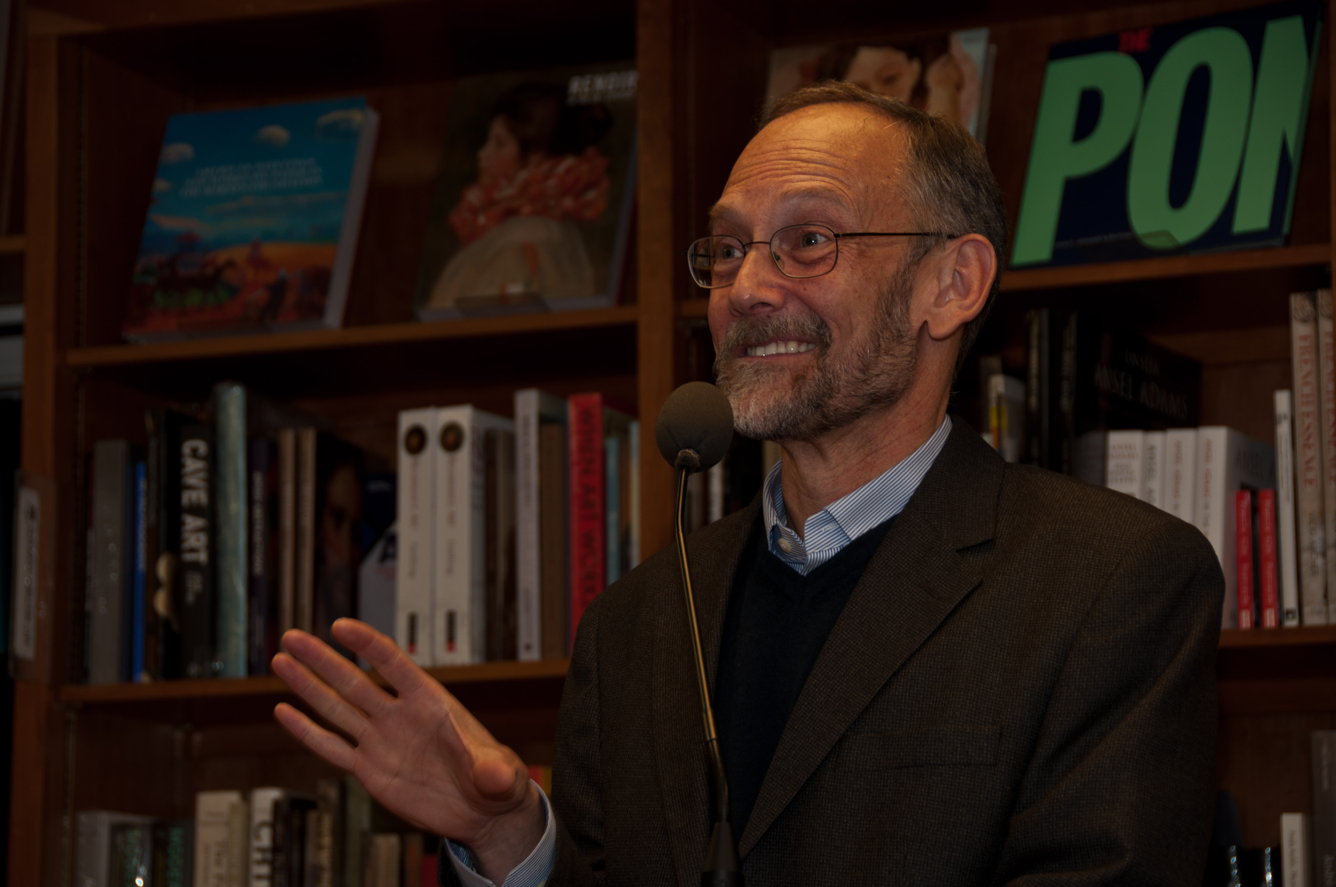 Writer Harold McGee